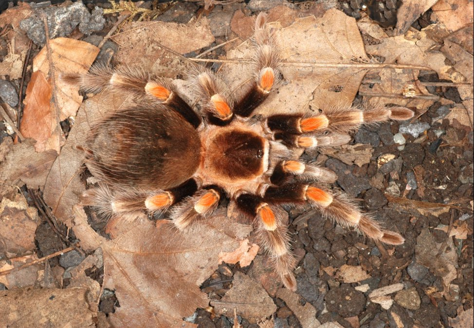 Brachypelma smithi